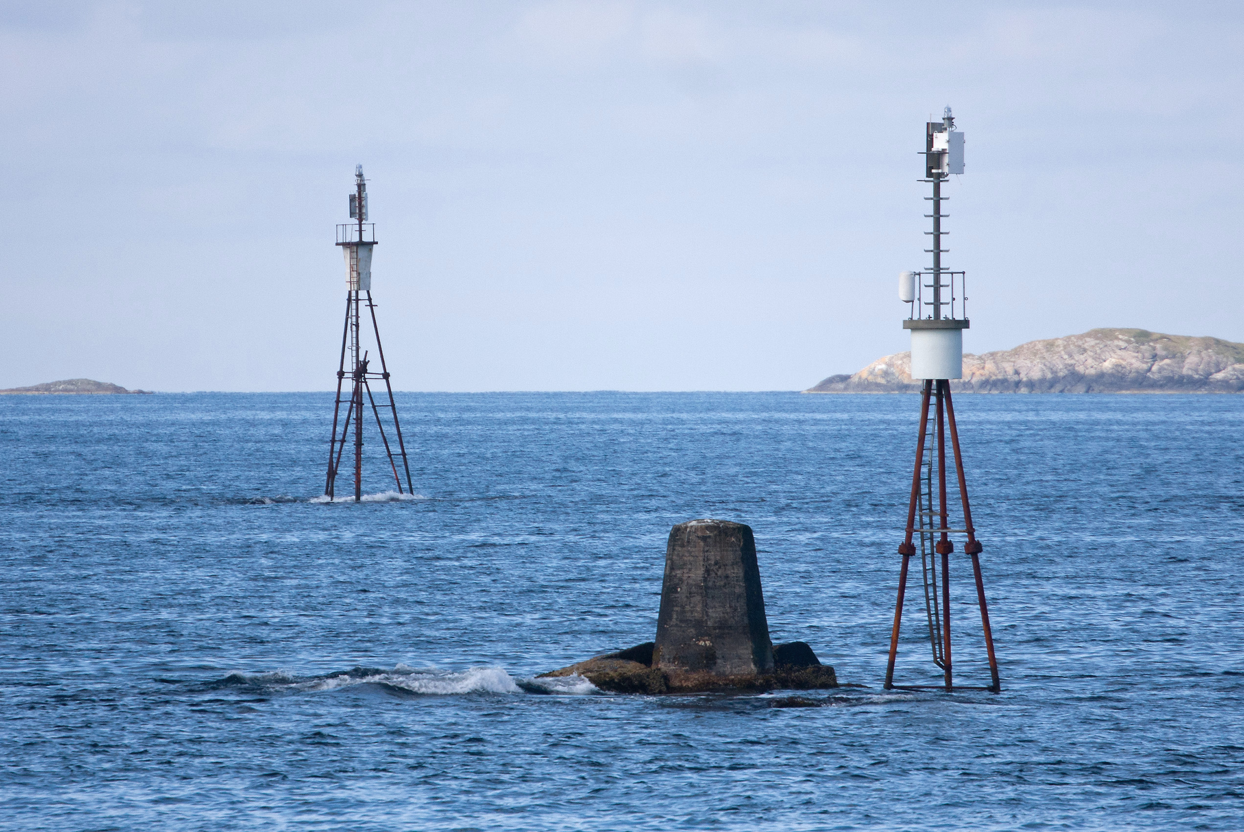 Big Bloksen - wreck site of catamaran 'Sleipner' / Norway